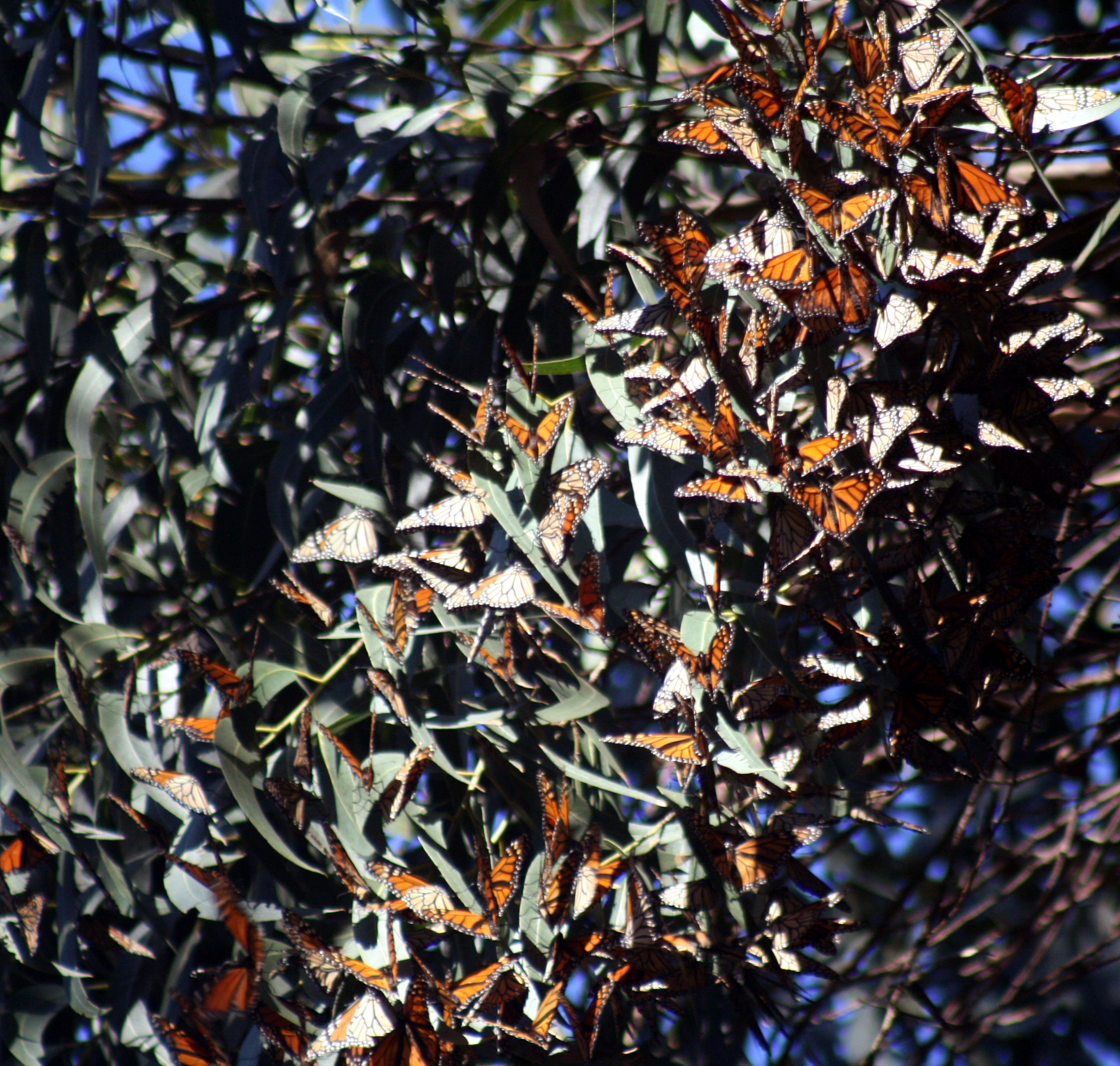 Monarch butterflies cluster in Santa Cruz, California. Monarch butterflies migrate to Santa Cruz to spend a winter.